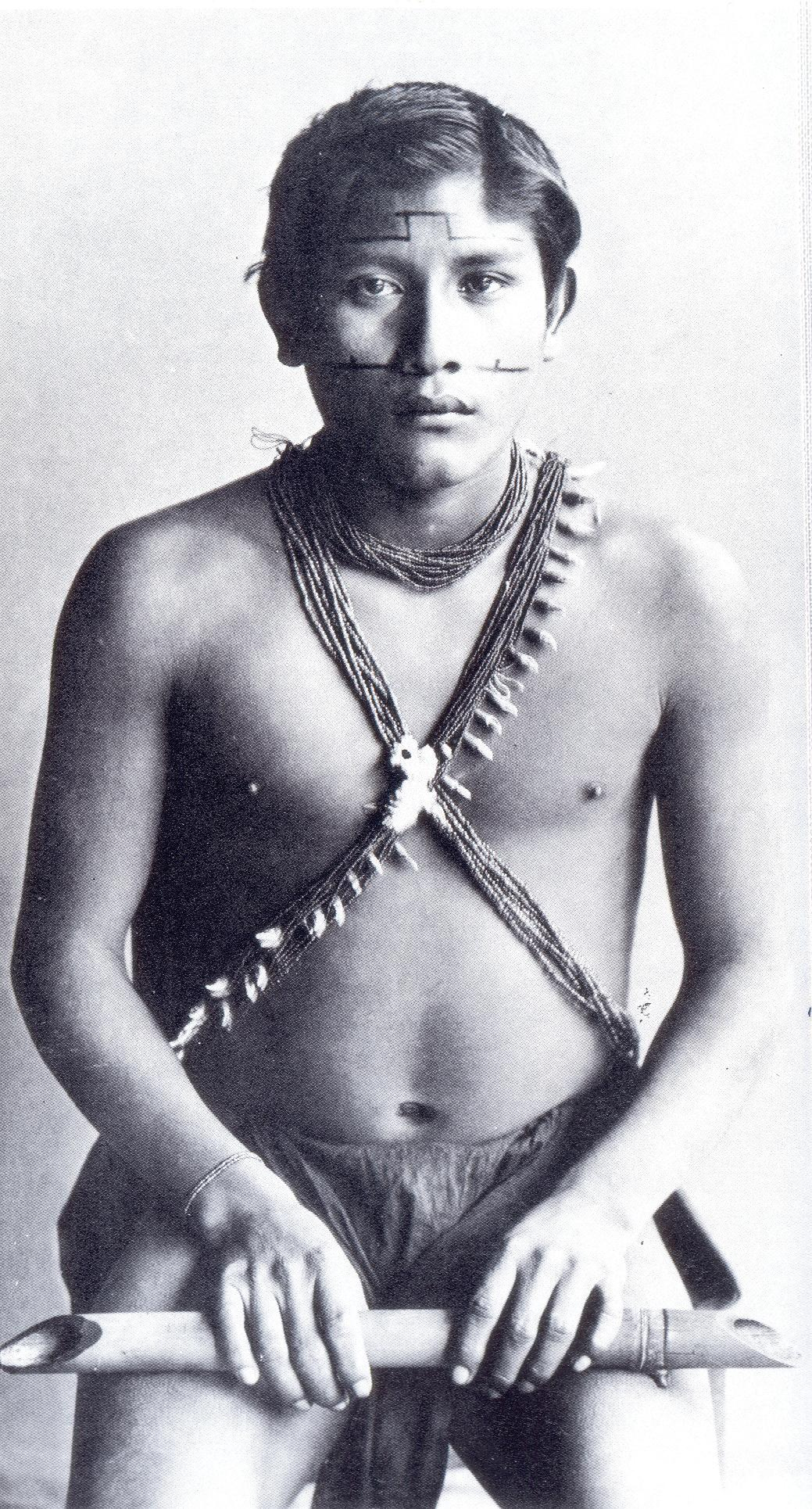 Portrait of a young Kali'na man in Paris in 1892.